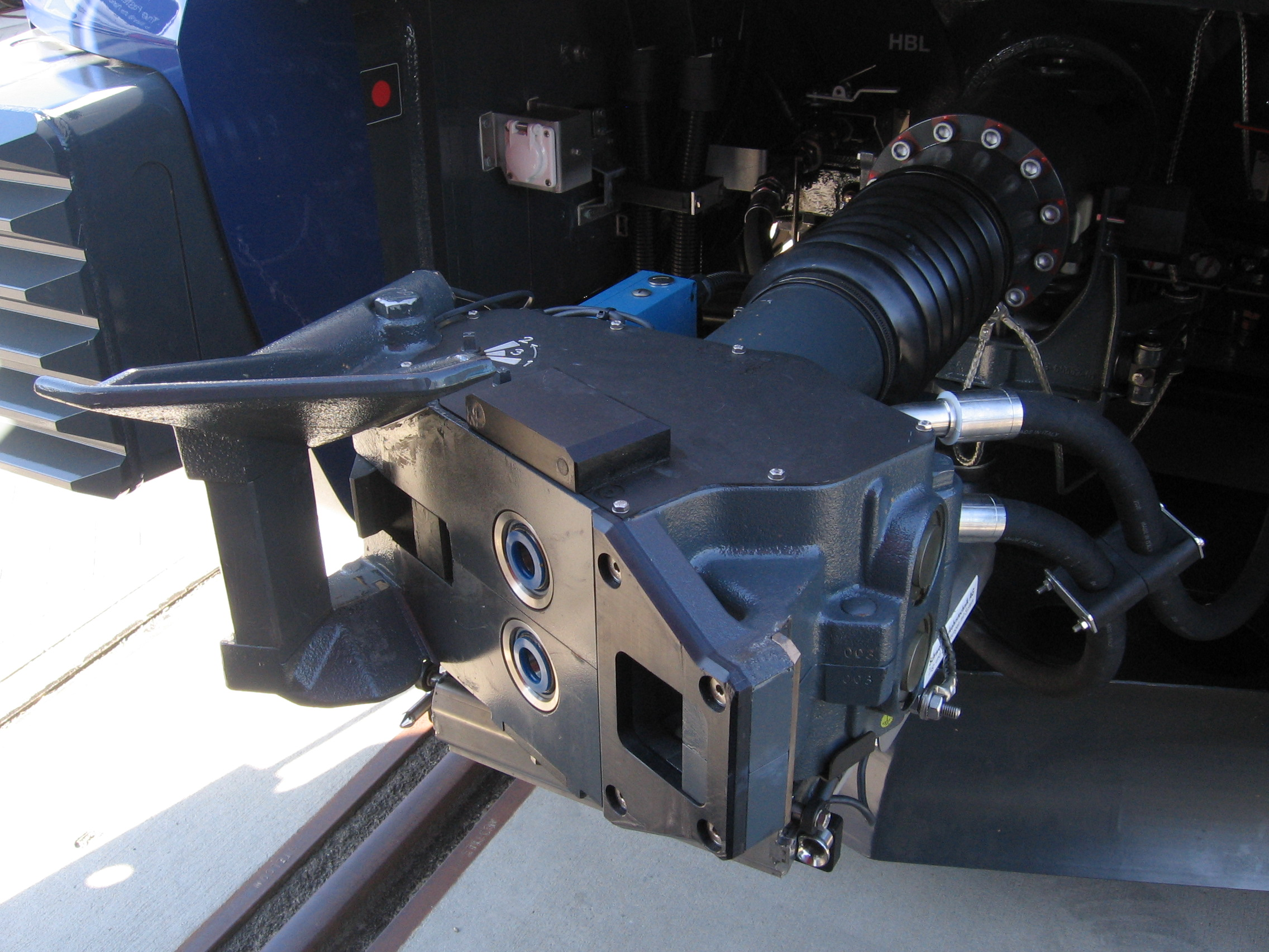 Automatic coupler of the SBB Class RABe 511